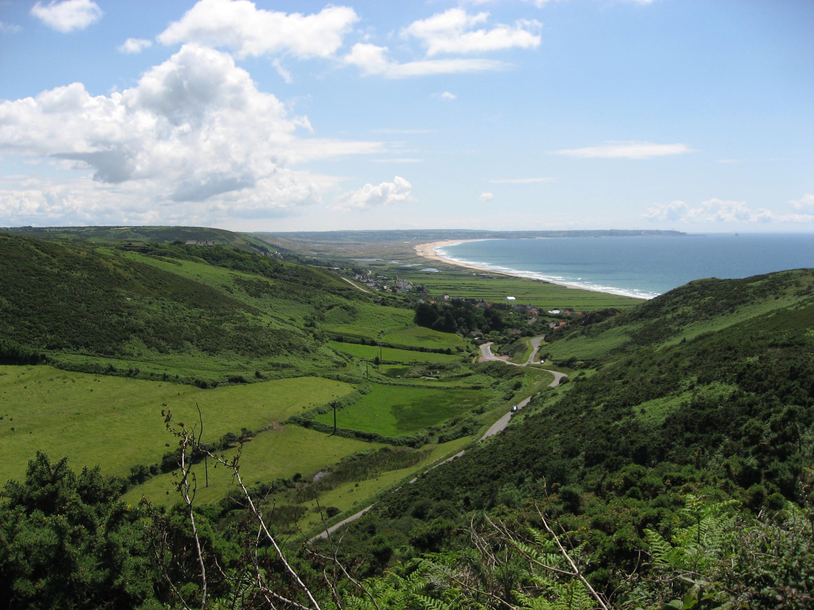 View from the top of a hill - Vauville, Manche, Basse-Normandie, France.